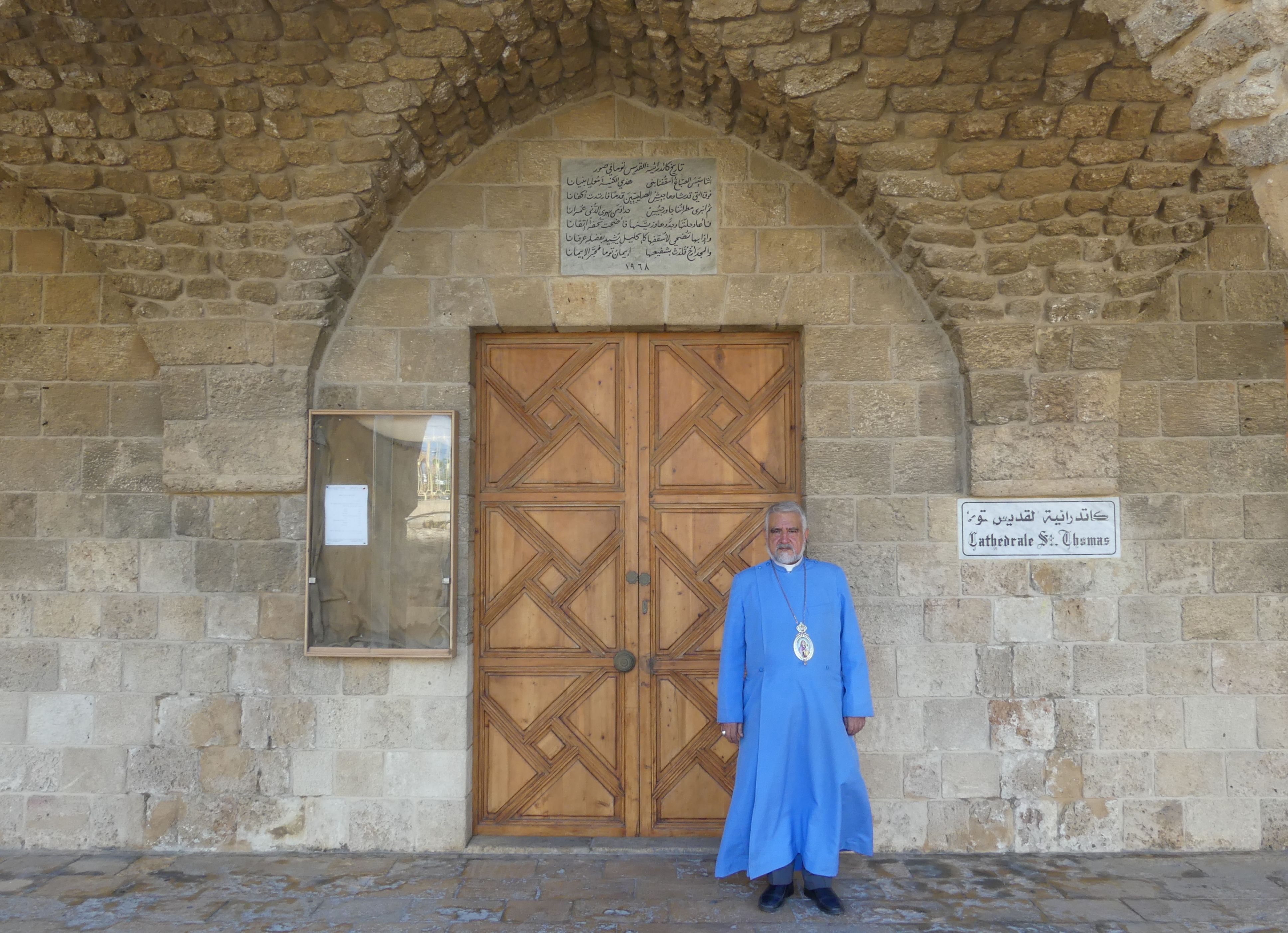 Michel Abrass (*1948 in Aleppo, Syria), Archbishop of the Melkite Greek Catholic Archeparchy of Tyre, Southern Lebanon, since 2014, here portrayed in front of the Saint Thomas Cathedral in Tyre/Sour.